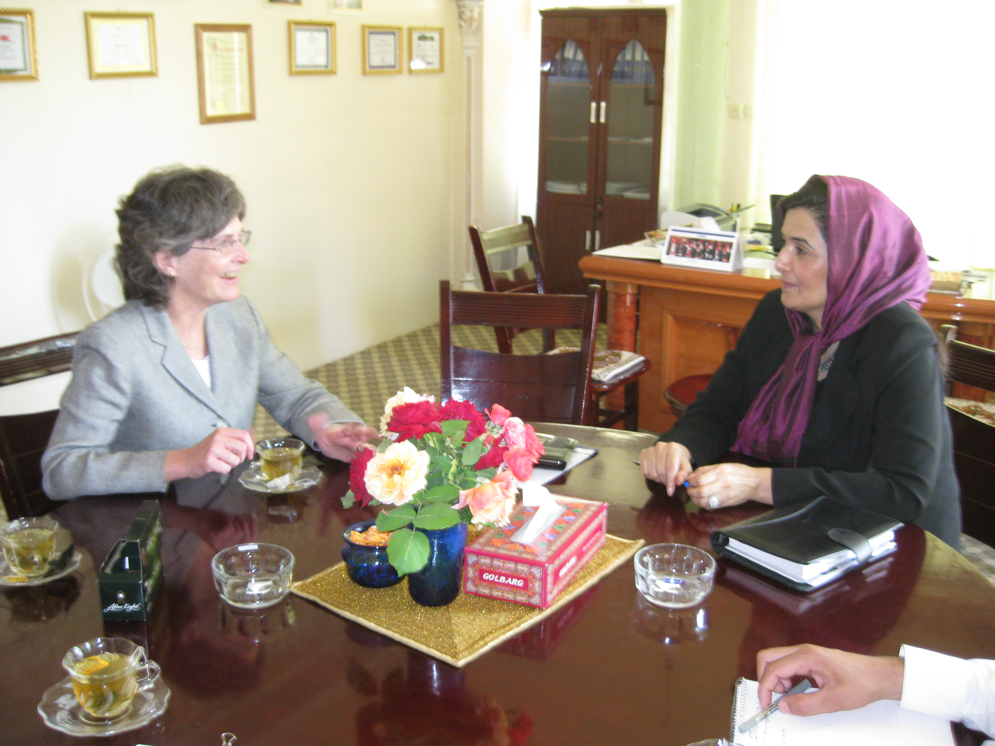 Dr. Marie Ricciardone (wife of then U.S. Ambassador to the Arab Republic of Egypt Francis J. Ricciardone, Jr) met with Suraya Pakzad, one of Time’s 100 Most Influential and the 2007 recipient of the Secretary’s International Women of Courage Award.